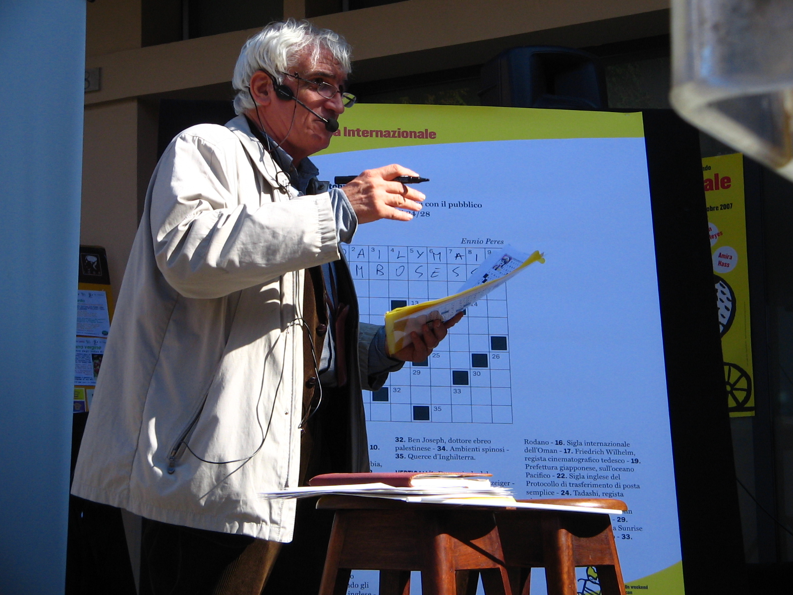 Ennio Peres, an italian crossword compiler